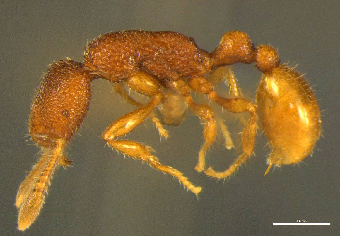 Left profile view of the Tyrannomyrmex alii holotype worker. Collected on 23 May 2016 in Periyar National Park, Idukki District, Western Ghats, India National Center for Biological Sciences, Bangalore, India NCBS specimen NCBS-AV849 Antcat specimen NCBS-AV849